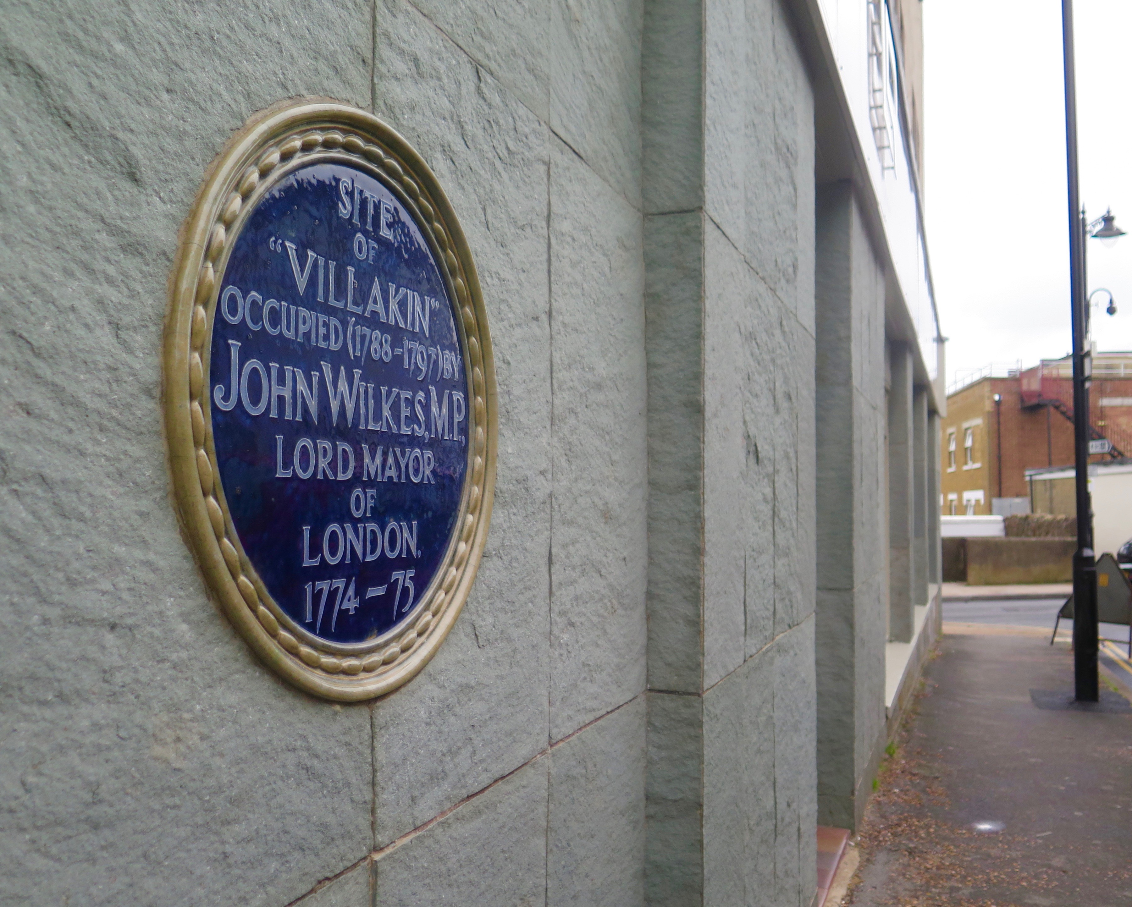 The plaque is in Wilkes Road, off Sandown High Street.